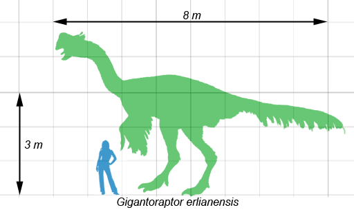 Size chart for Gigantoraptor erlianensis. Based on an illustration by User:ArthurWeasley.